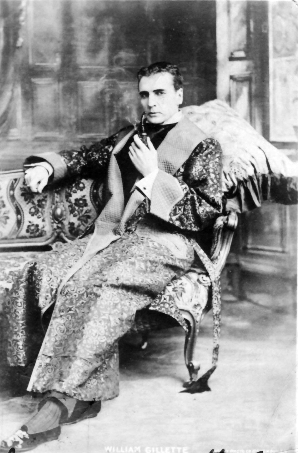 William Gillette in Secret Service